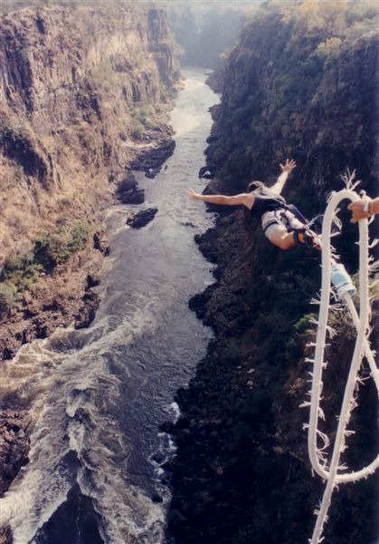 Bungee jumping off the Zambezi Bridge, Victoria Falls, Africa